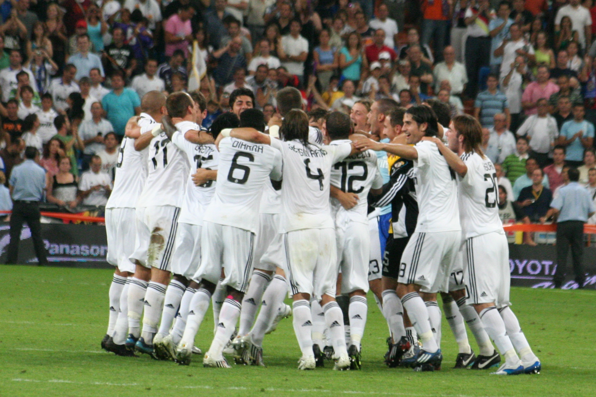 The players of Real Madrid after 2008 Supercopa de España